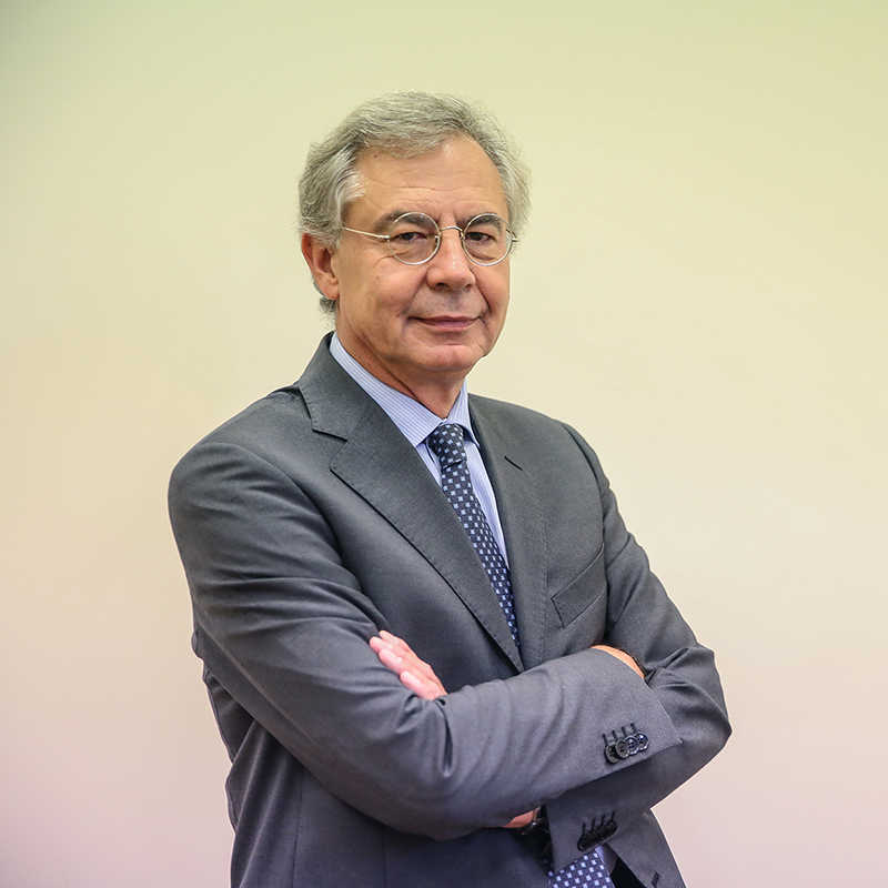 Gianluigi Vittorio Castelli President of FS Italiane Group